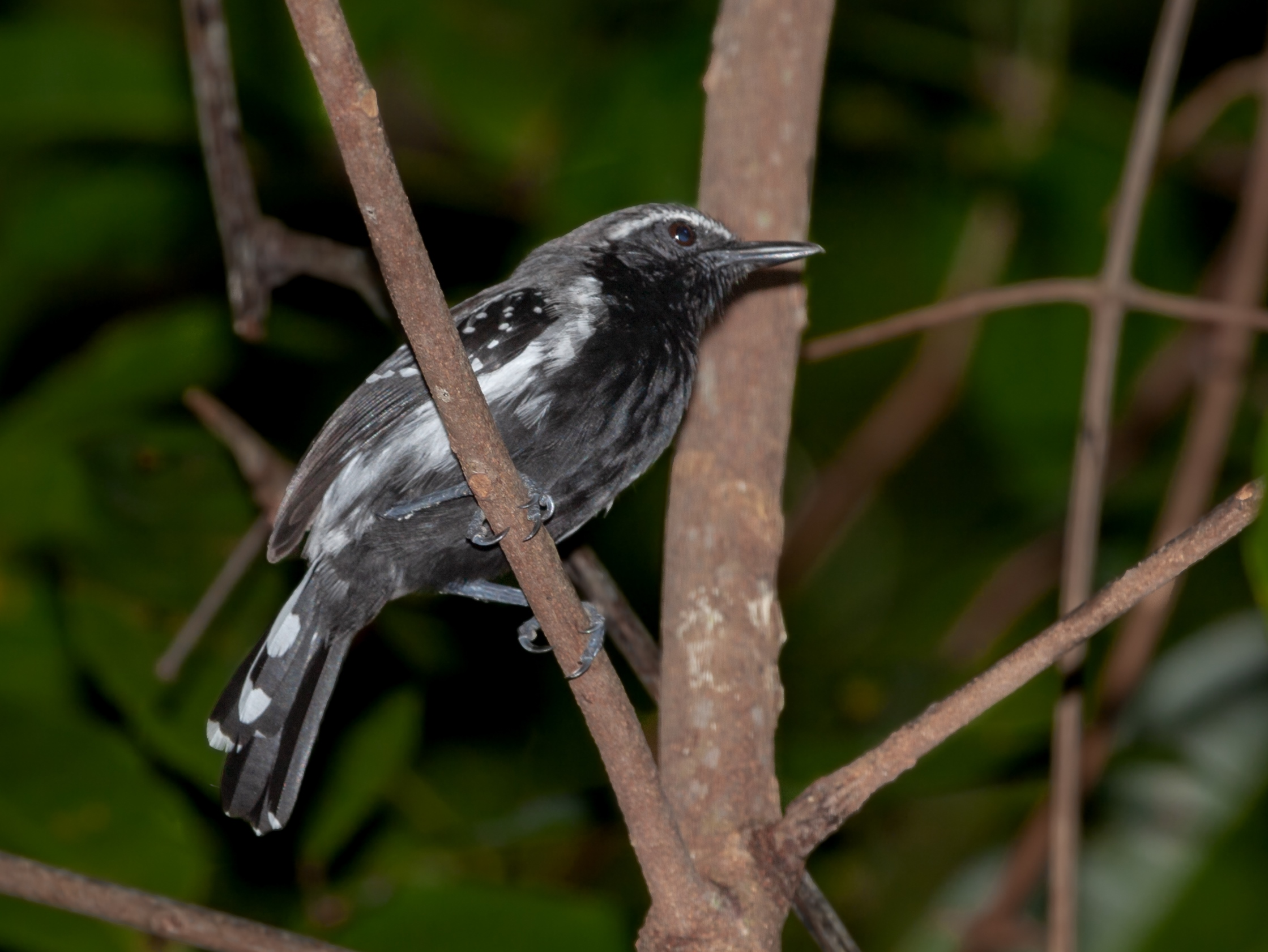 White-fringed Antwren (male) at Baia Formosa - RN - Brasil